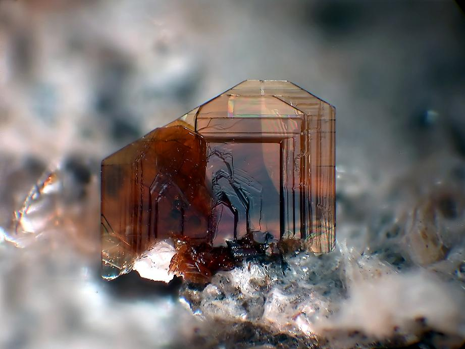 Biotite aggregate (Image width: 2,5 mm) - Locality: Wannenköpfe, Ochtendung, Eifel region, Germany